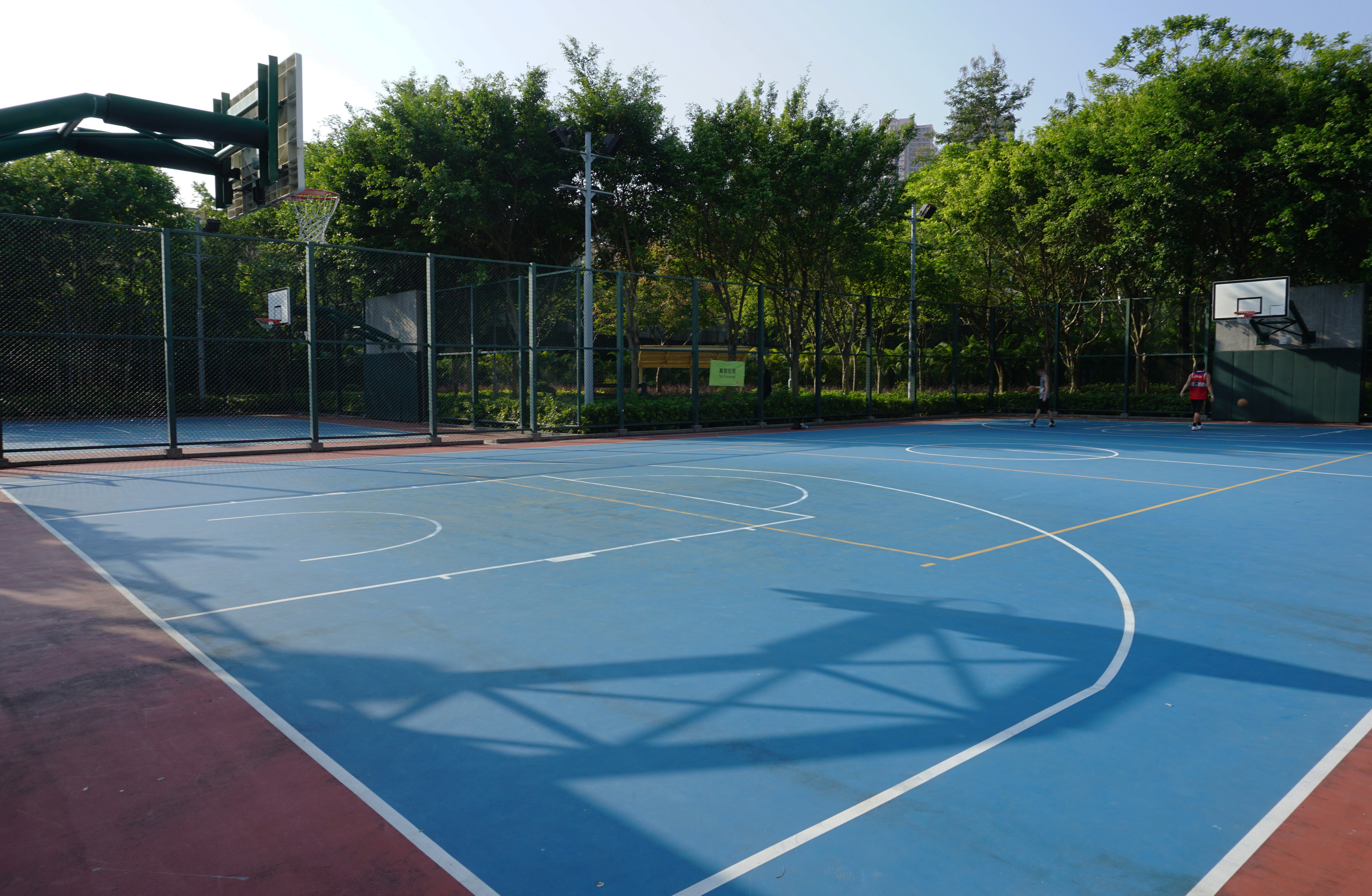 Sheung Ning Playground, Hong Kong.